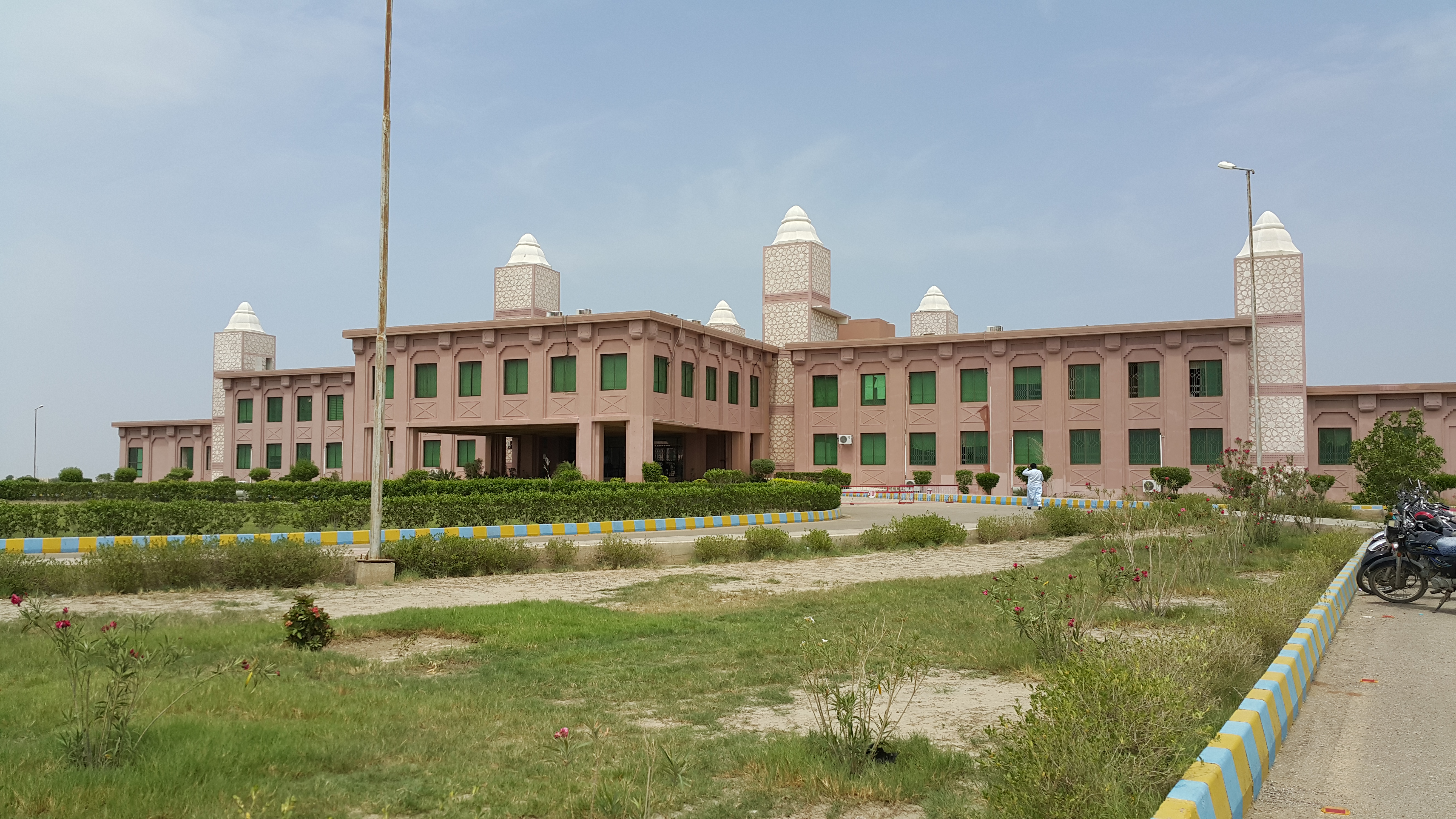 A picture of the Mehran University of Engineering and Technology Jamshoro Sindh Building